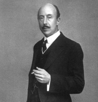 Mervyn O'Gorman, published in Flight 1912